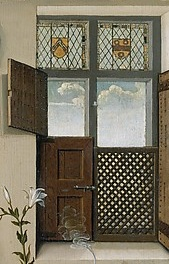 Annunciation Triptych (Merode Altarpiece)